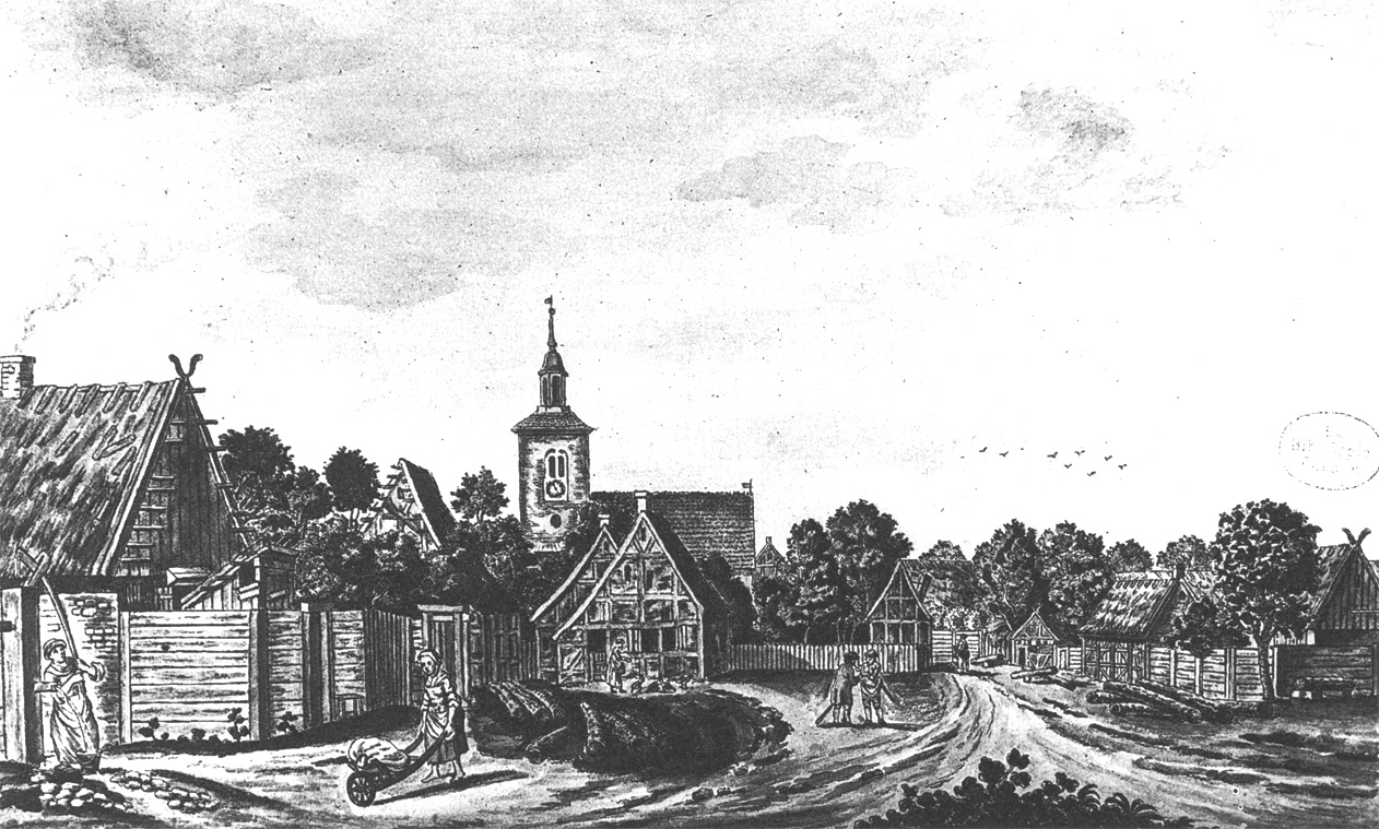 Painting of the village of Berlin-Lichtenberg, about 1800.